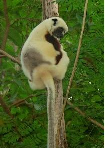 Sifaka de Verreaux, northern Madagascar own work 2006/05/20 thierry hitier CC-BY-SA-2.5